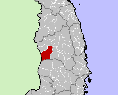 Chu Prong District, Gia Lai Province, Vietnam.